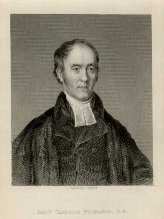 Claudius Buchanan (1766-1815)